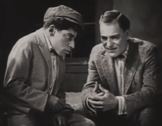 John George (left) and Lon Chaney in Outside the Law (1920) - cropped screenshot